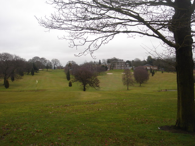 Shaw Hill Leisure Club golf course.